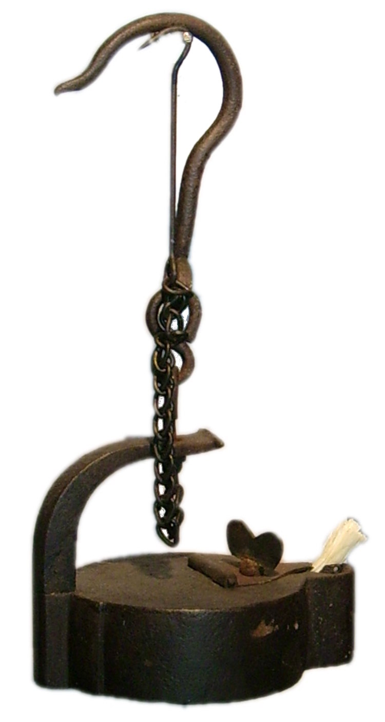 Oil lamp mining lantern